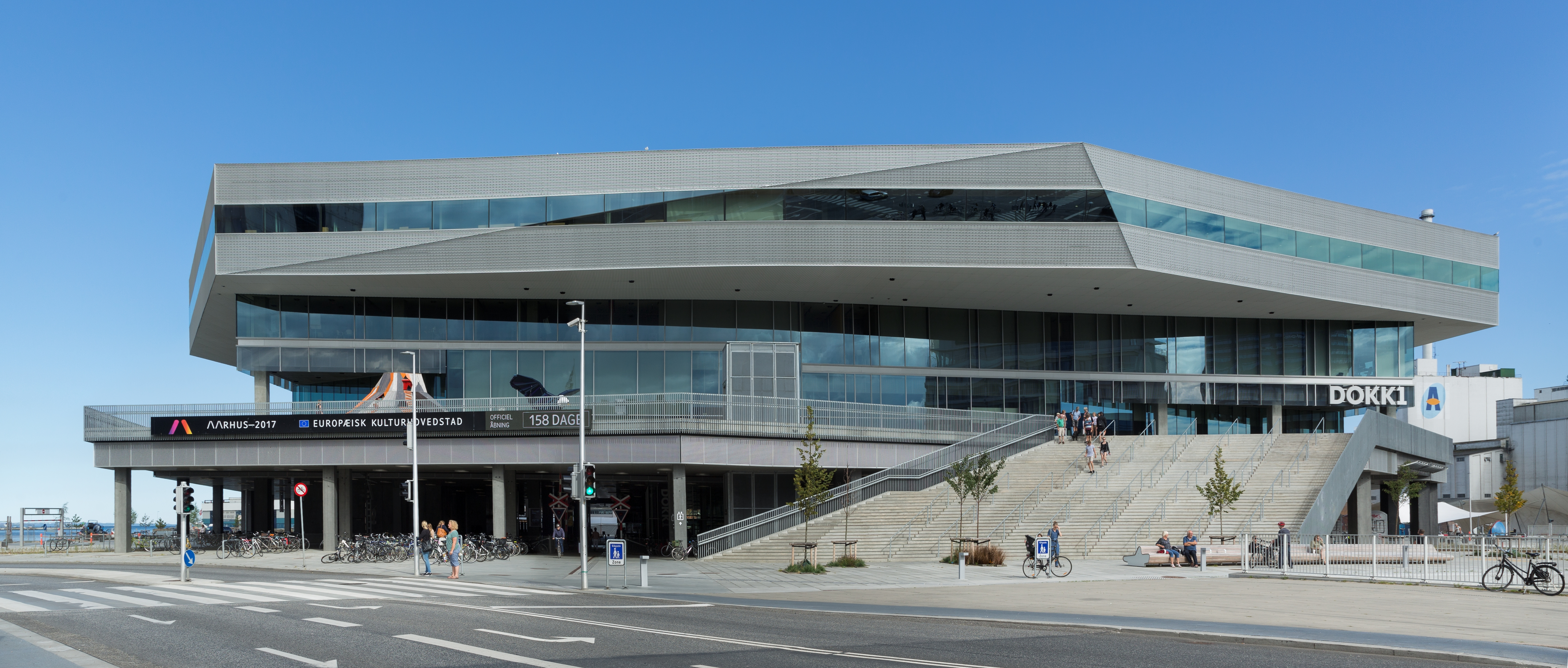 Dokk1 seen from Europaplads